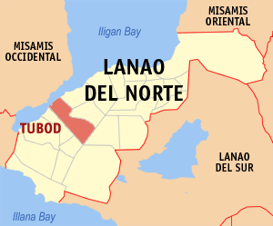 Map of the Lanao del Norte showing the location of Tubod